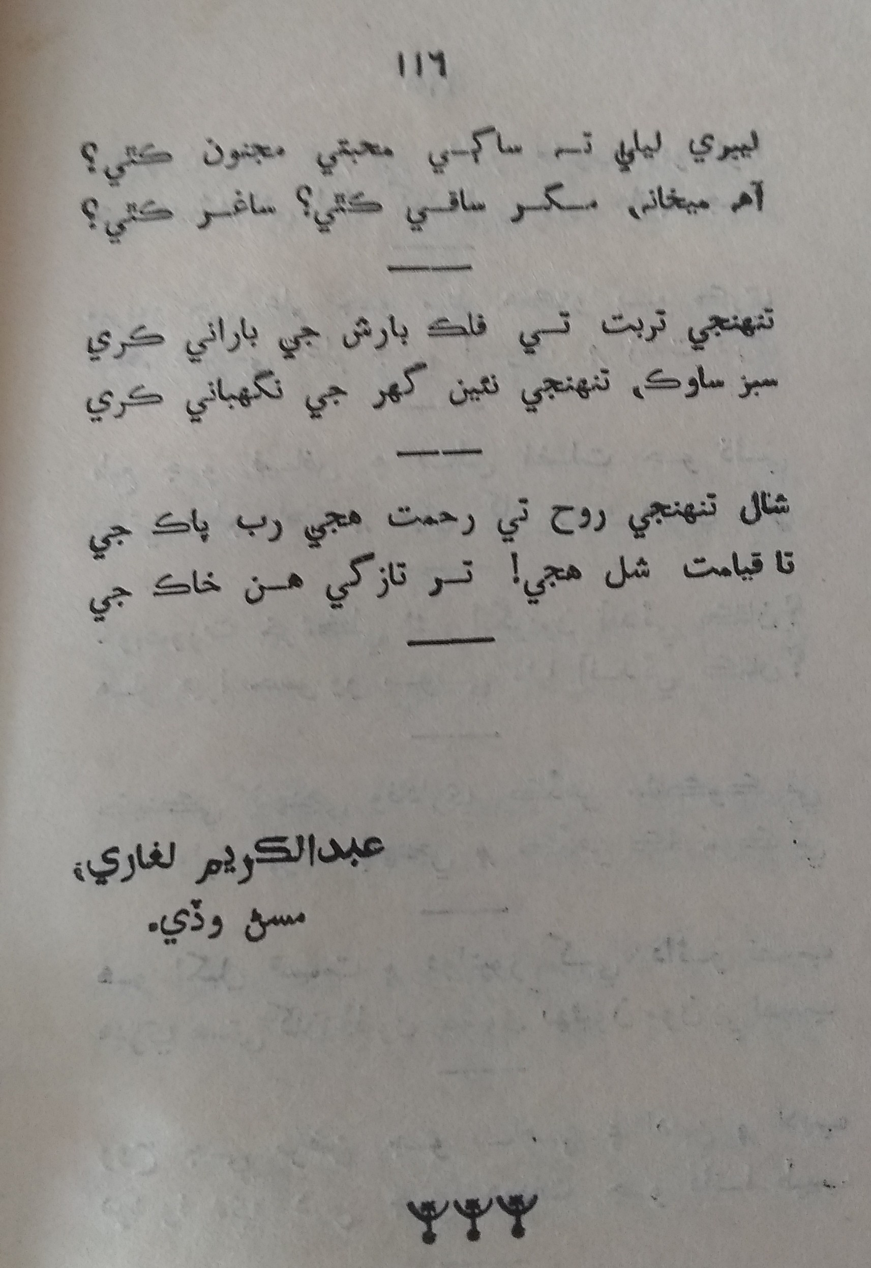 Molvi Abdul Karim lagari ki shayri